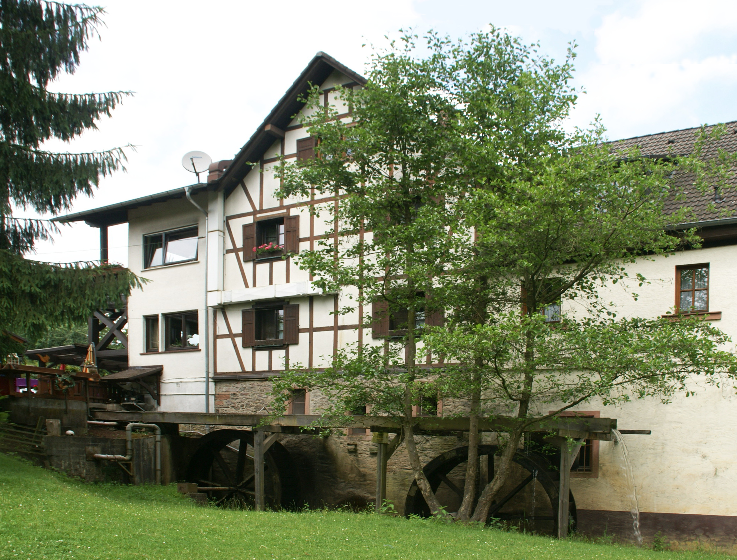 The Heimbacher Mühle is now a restaurant of the same name. Water wheels are still present and show the former function.